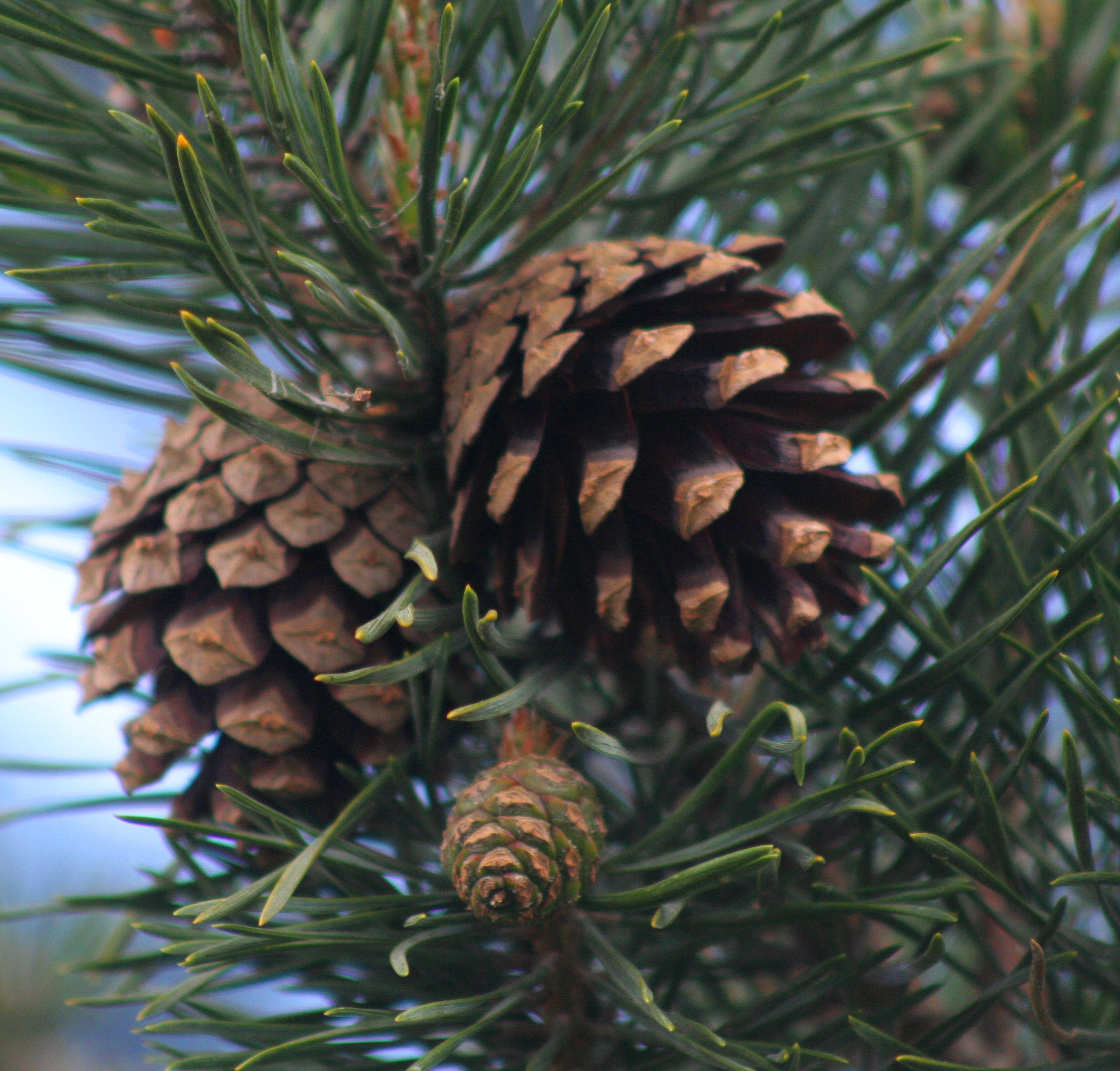 Cones (two mature, one immature) on a young Scots Pine in the Earl's Cross Woods, Dornoch